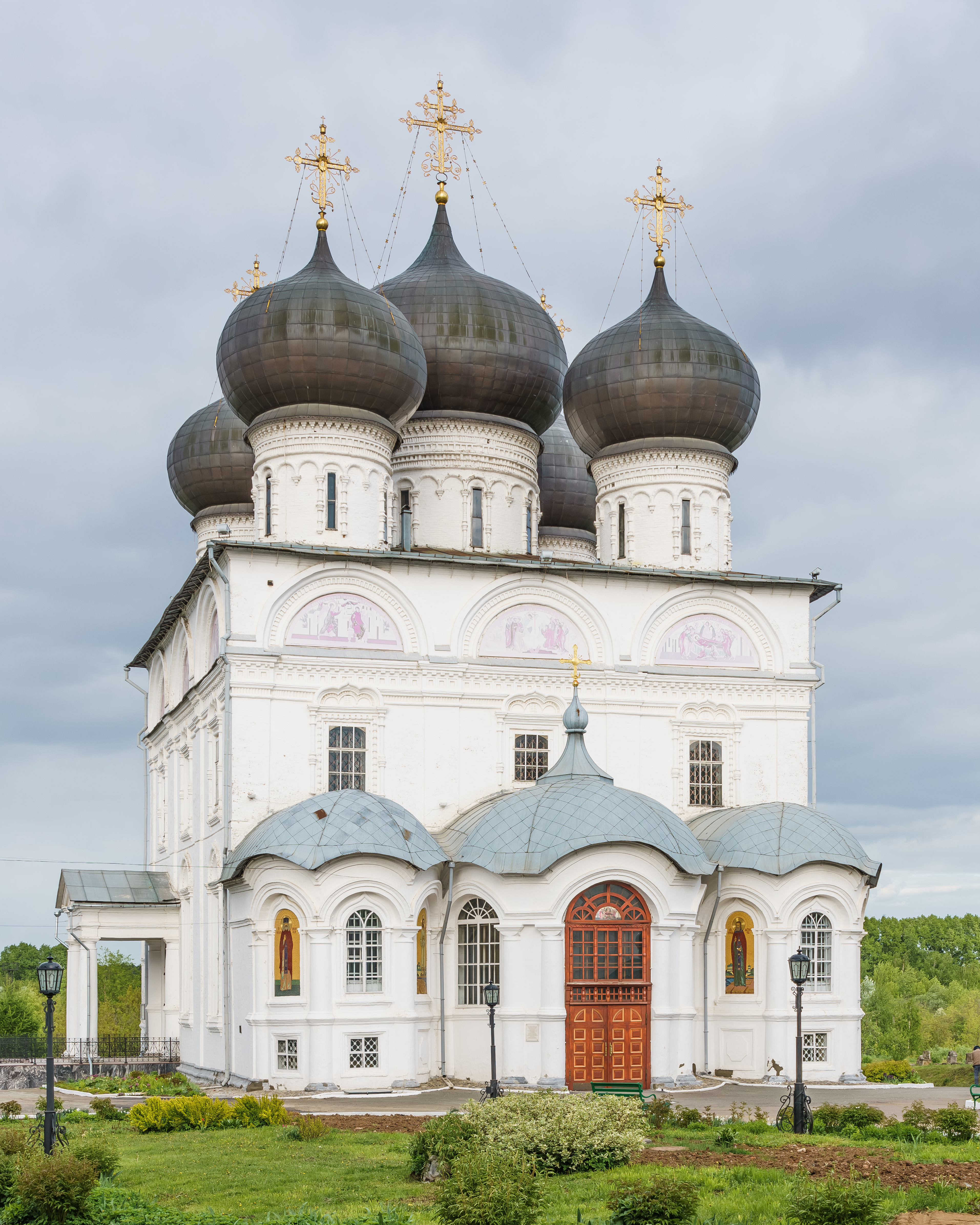 Trifonov Monastery in Kirov, Russia